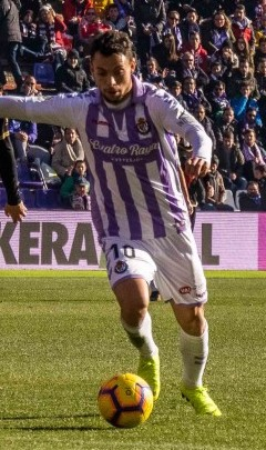 Real Valladolid - Rayo Vallecano, 18th fixture of the 2018-19 La Liga, January 5, 2019.